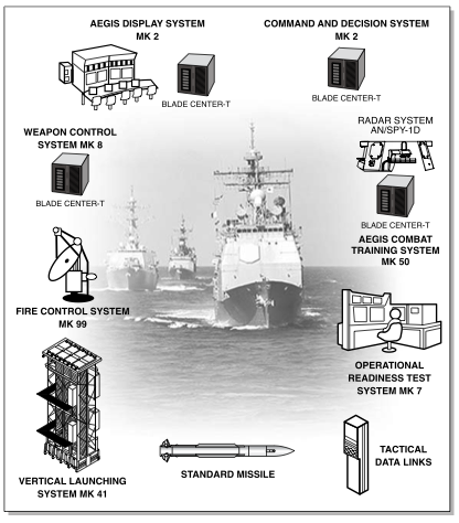 Aegis Weapon System, core of the Aegis Combat System